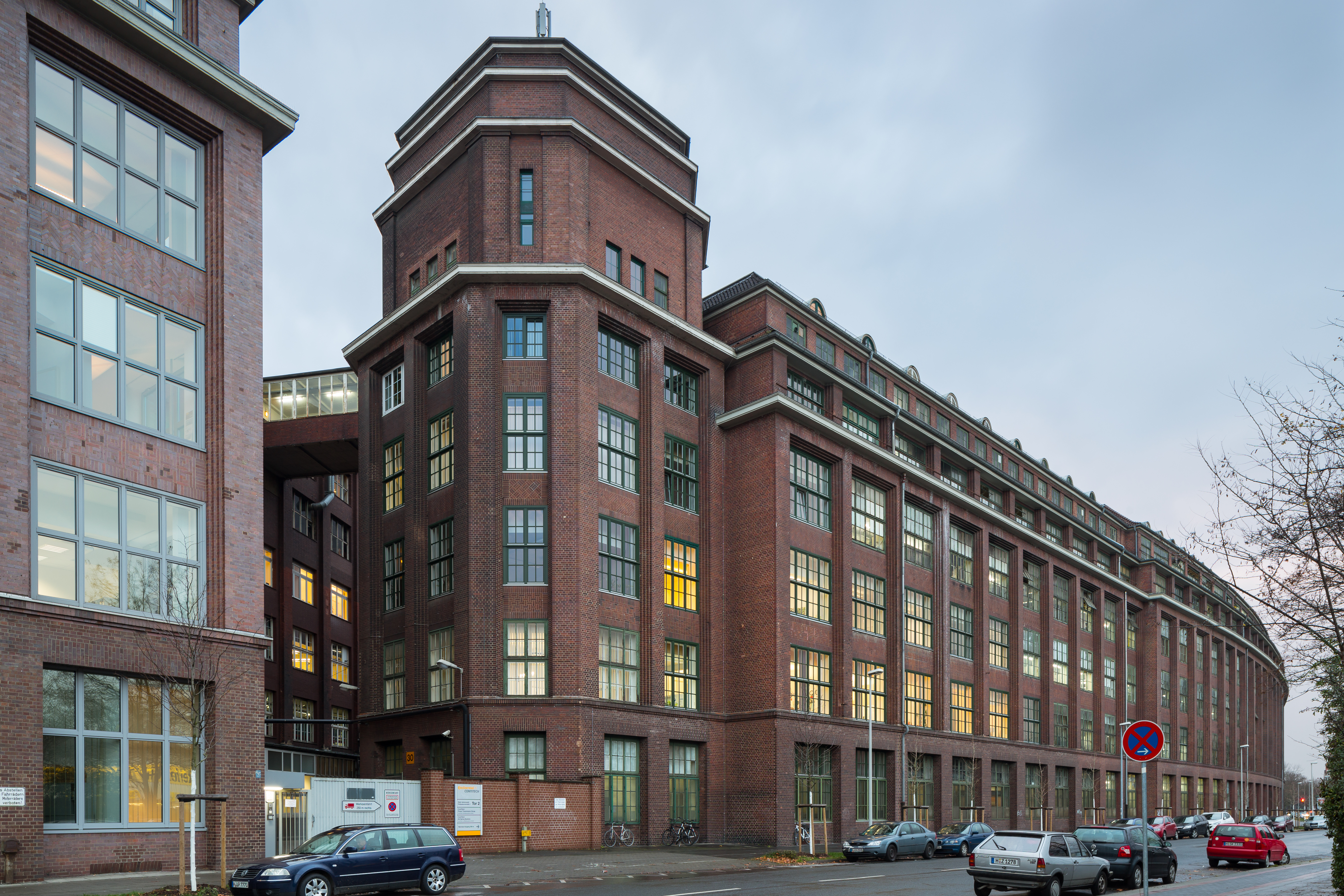 Factory building of Continental AG / ContiTech AG tire maker located at Phlipsbornstrasse (pictured) and Vahrenwalder Strasse in Vahrenwald district of Hannover, Germany.